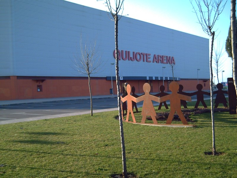 A own work release by Javier martin gathered Ciudad Real up, 20 march 2006, donated to Wikipedia fundation. Quijote Arena, de Ciudad Real